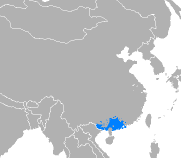 Cantonese language